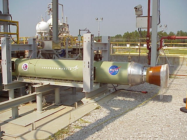 HYSR in the testbed.